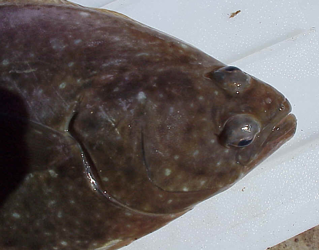 Dorsal side of the head of a Pacific halibut , Hippoglossus stenolepis